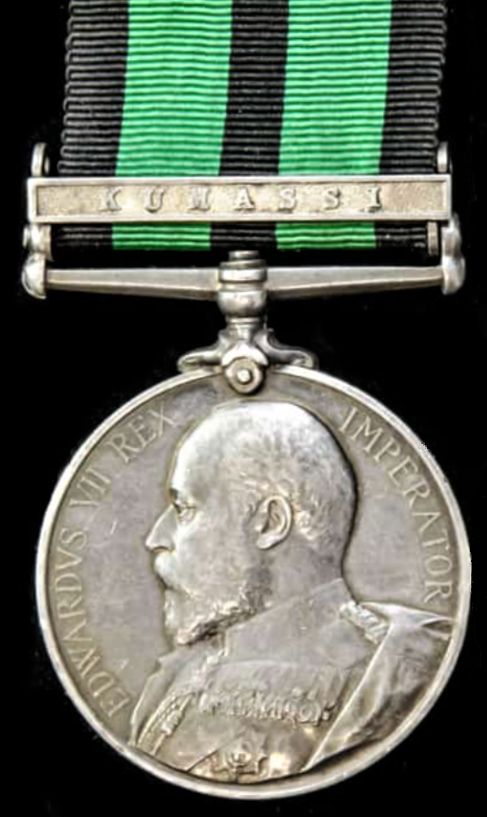 British campaign medal for the 1901 Ashanti campaign, in what is now southern Ghana.